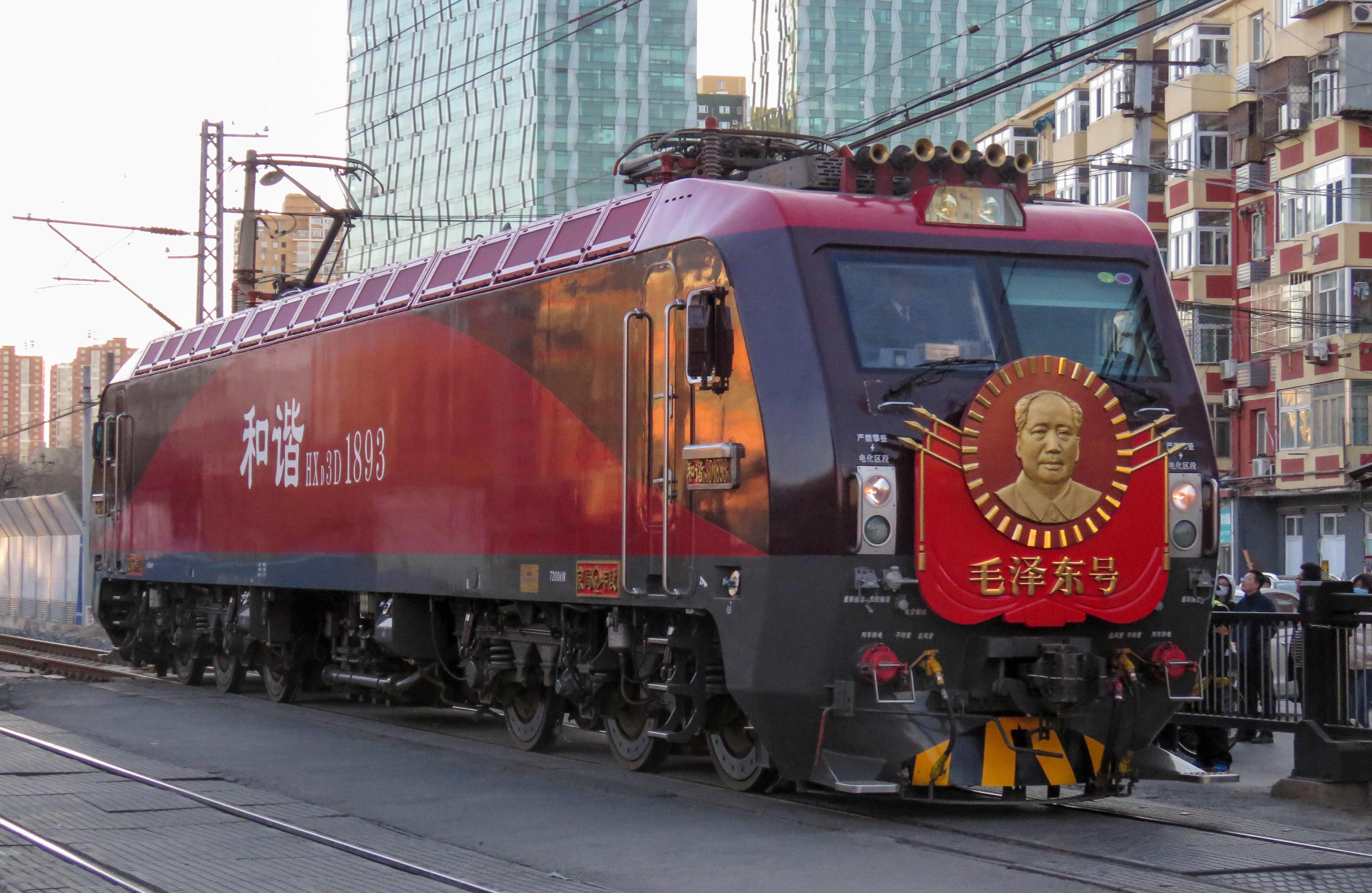 50002 from Fengtai Depot. This level crossing will not let motor vehicles pass after the completion of New Shoupakou North St.